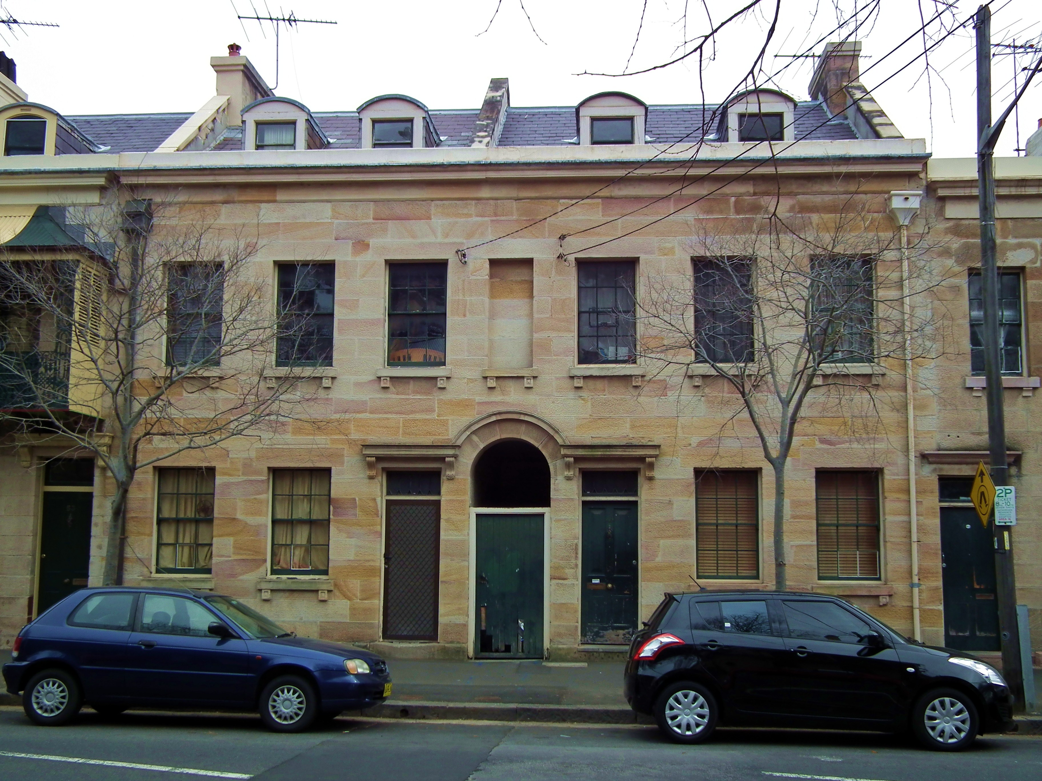 Pair of sandstone houses - Miller's Point, Sydney, New South Wales. Located at 49-51 Kent Street.